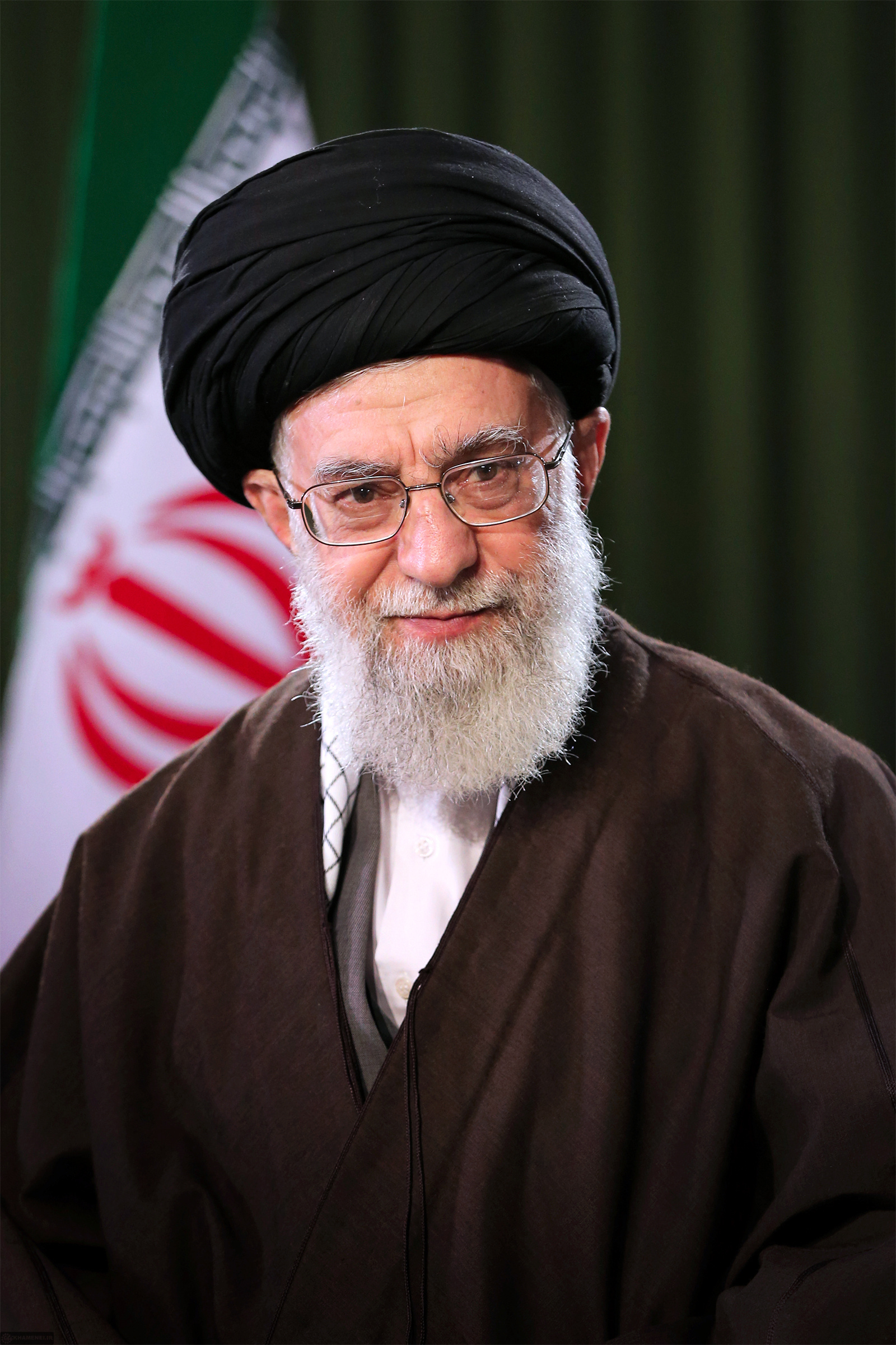 Ali Khamenei, Supreme Leader of Iran